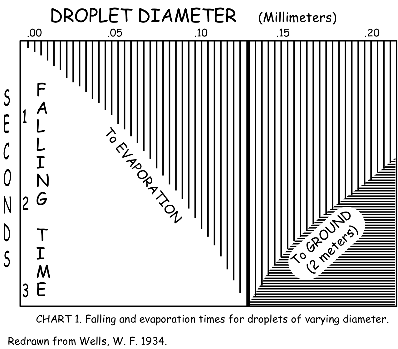 This is a redrawing of Well's original illustration from his 1934 paper. W. F. WELLS, 1934, ON AIR-BORNE INFECTION: STUDY II. DROPLETS AND DROPLET NUCLEI. American Journal of Epidemiology 20 (3): 611–618